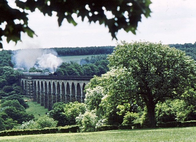 Evening Star crosses Crimple Viaduct 'Evening Star', the last steam loco ever built at the Swindon works, heads a steam special train into Harrogate over Crimple viaduct.